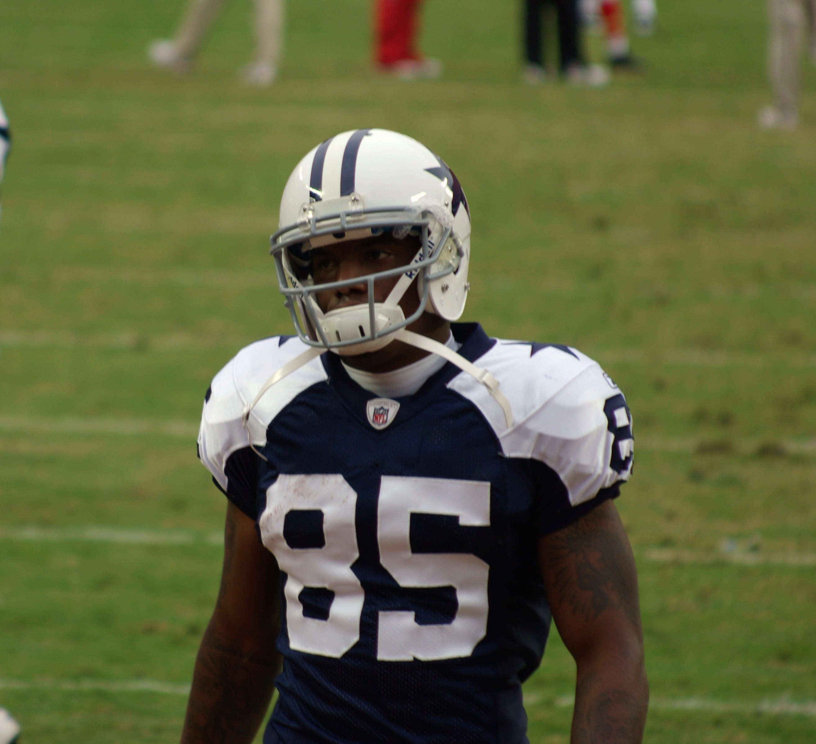 Kevin Ogletree - 2009 - Dallas Cowboys vs. Kansas City Chiefs